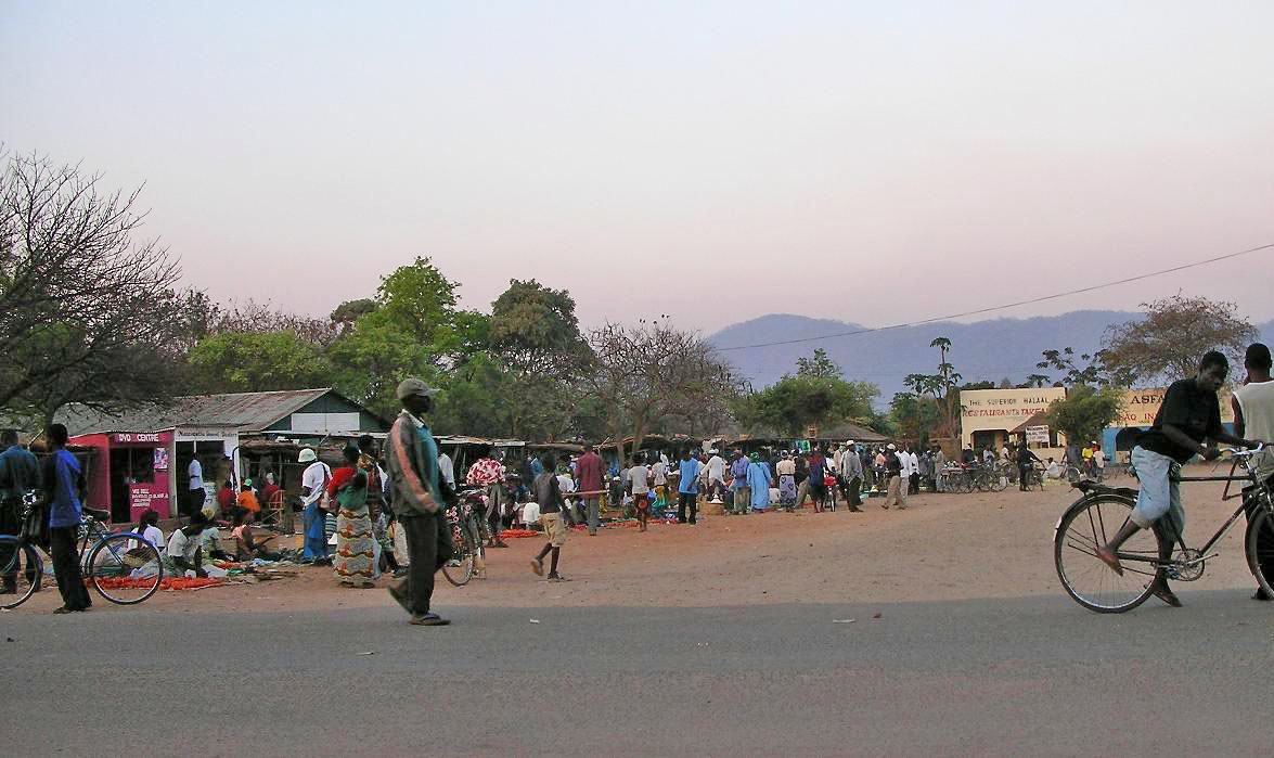 The market area of Liwonde, Malawi. Photo taken at 5:20 PM local time; altimeter 510 meters.